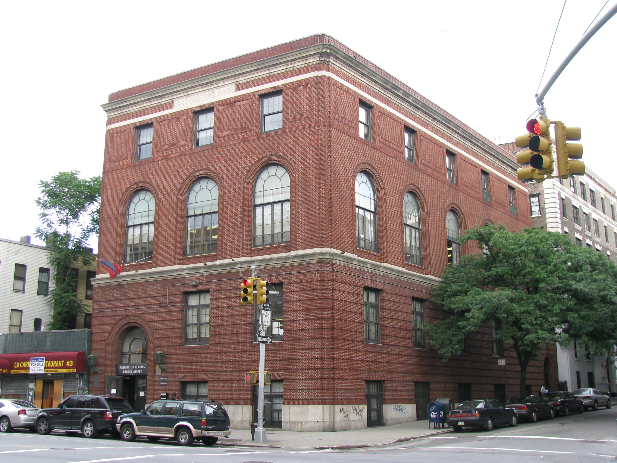 The Washington Heights Branch of the New York Public Library, funded by Andrew Carnegie.